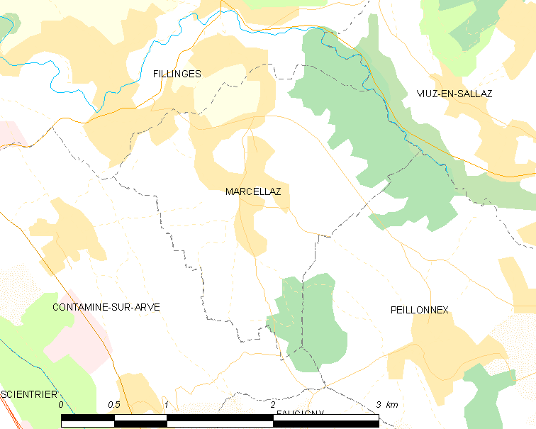 Map of French municipality Marcellaz